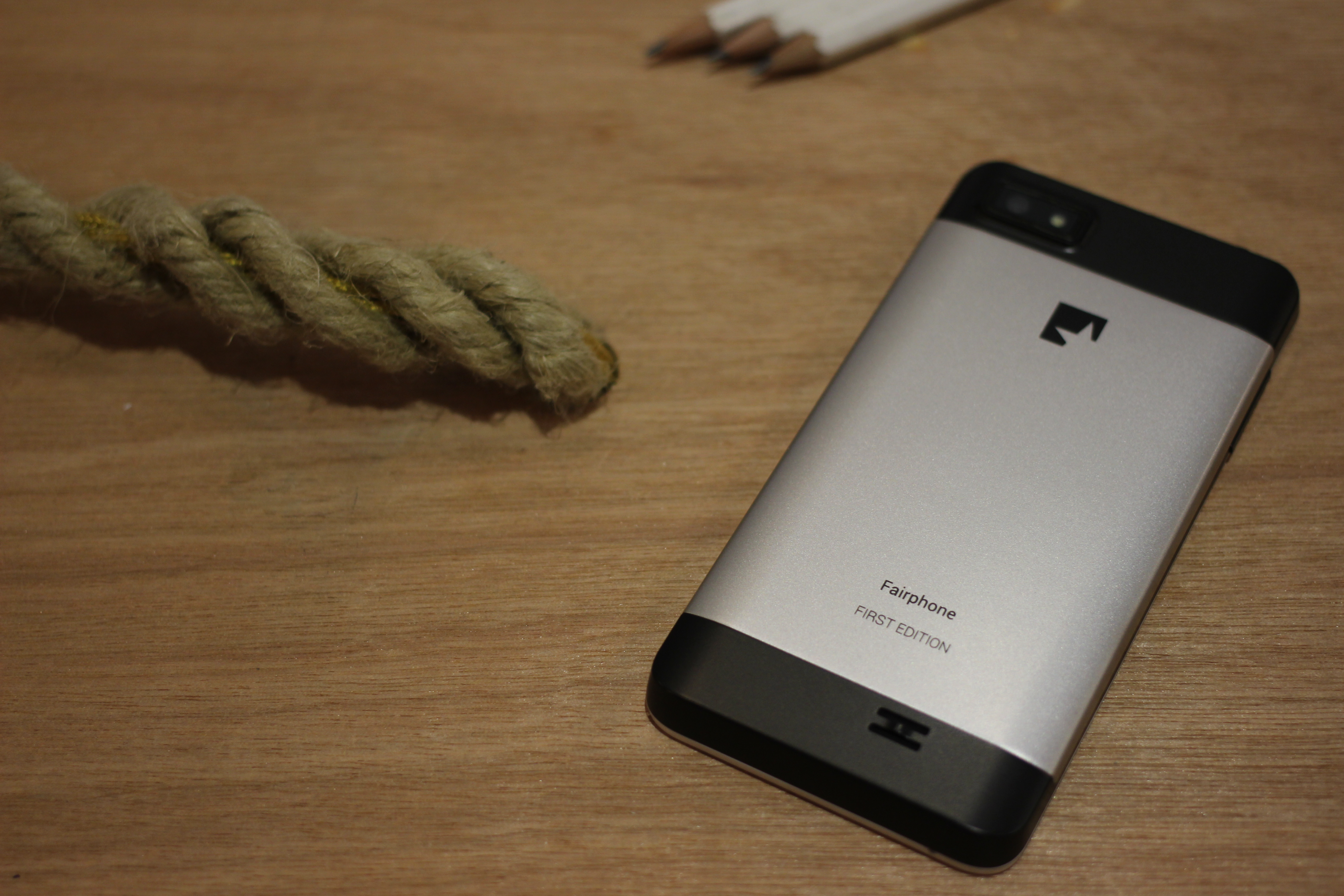 Fairphone